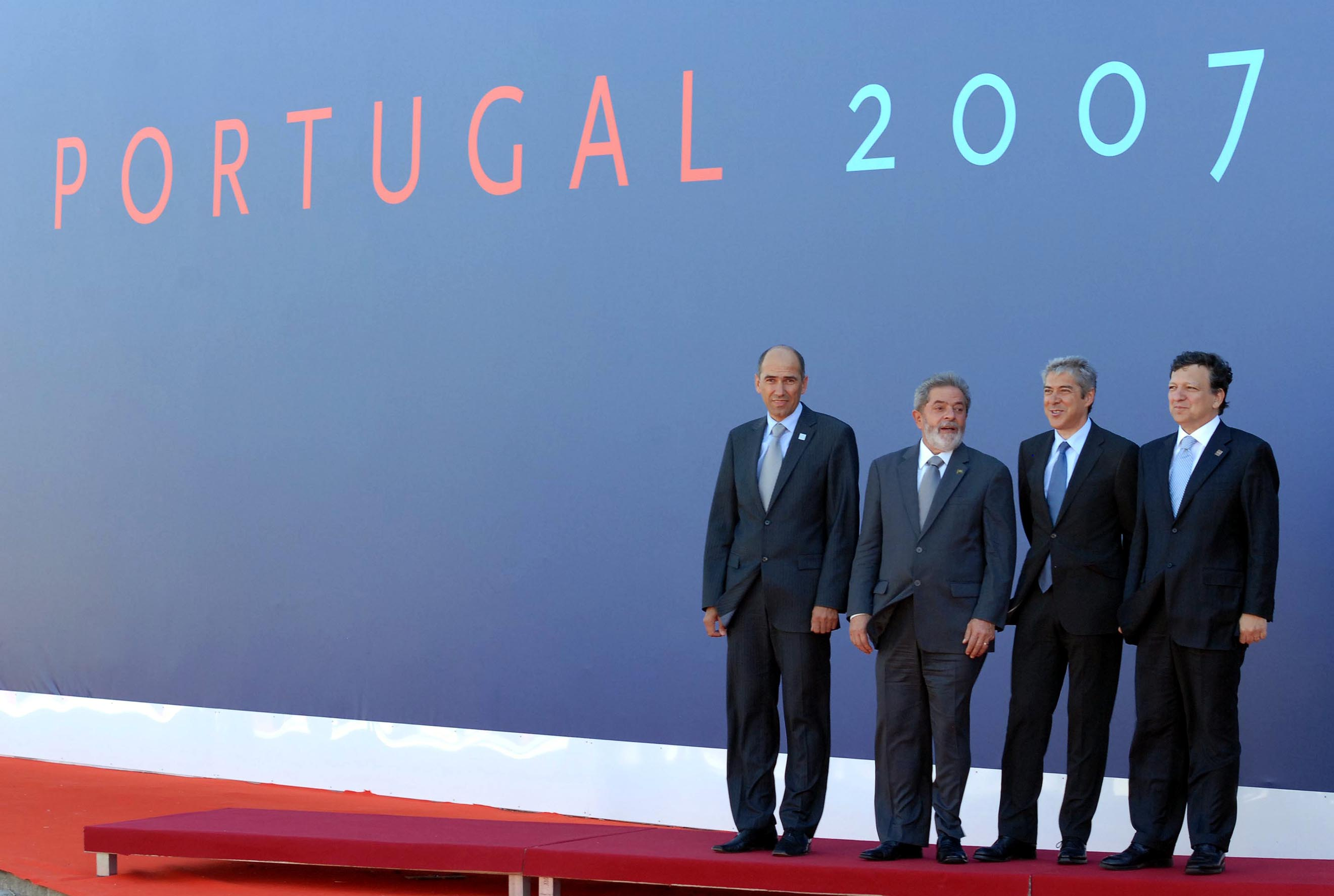 The primeminister of Slovenia, Janez Jansa, the Brazilian presidentLula da Silva, the primeminister of Portugal, José Sócrates, and the president of the commission of the European Union, José Manuel Durão Barroso, during the EU-Brazil conference in Lisbon 2007